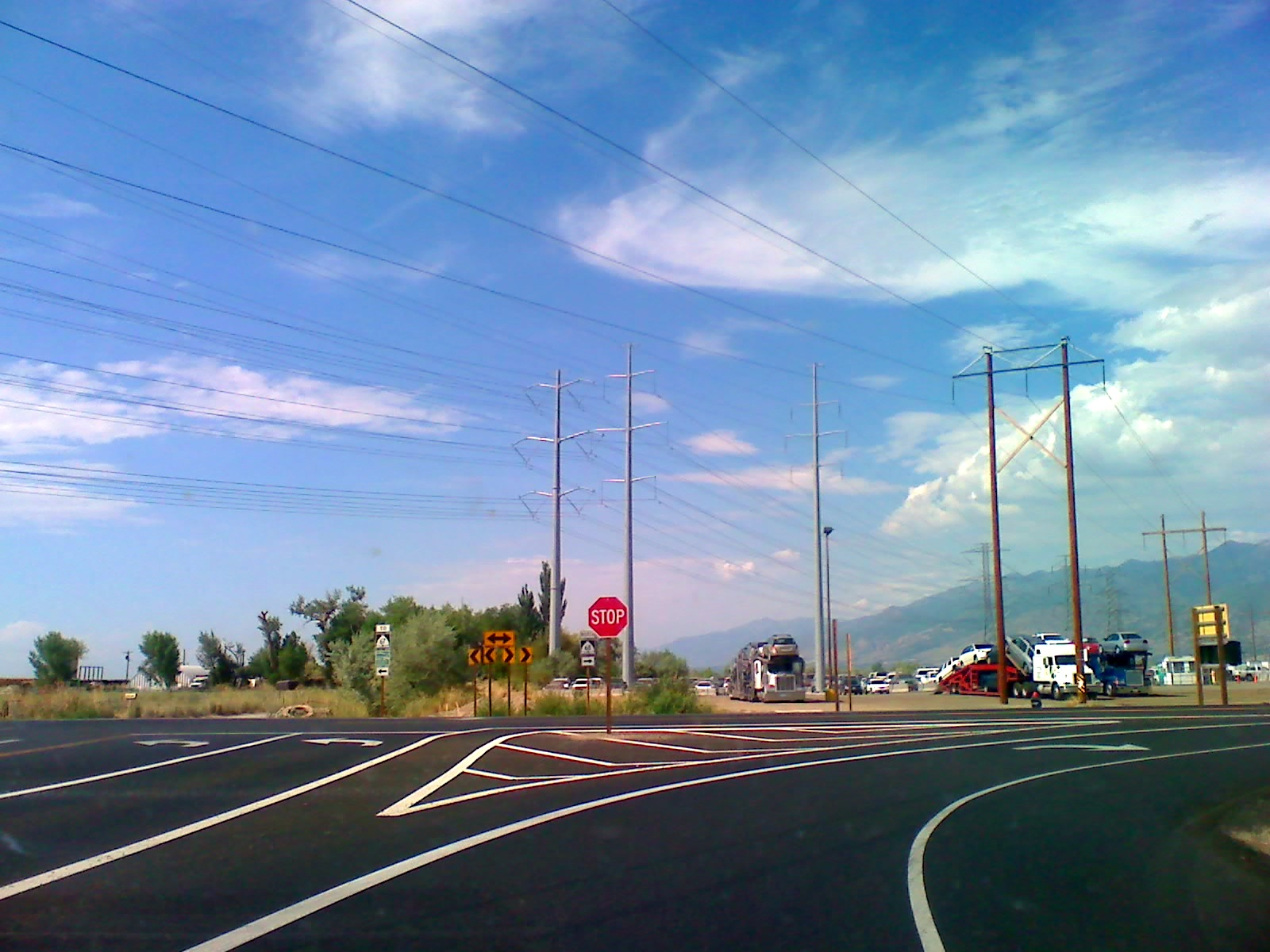 SR-68 at 500 South; turn left to Legacy Parkway